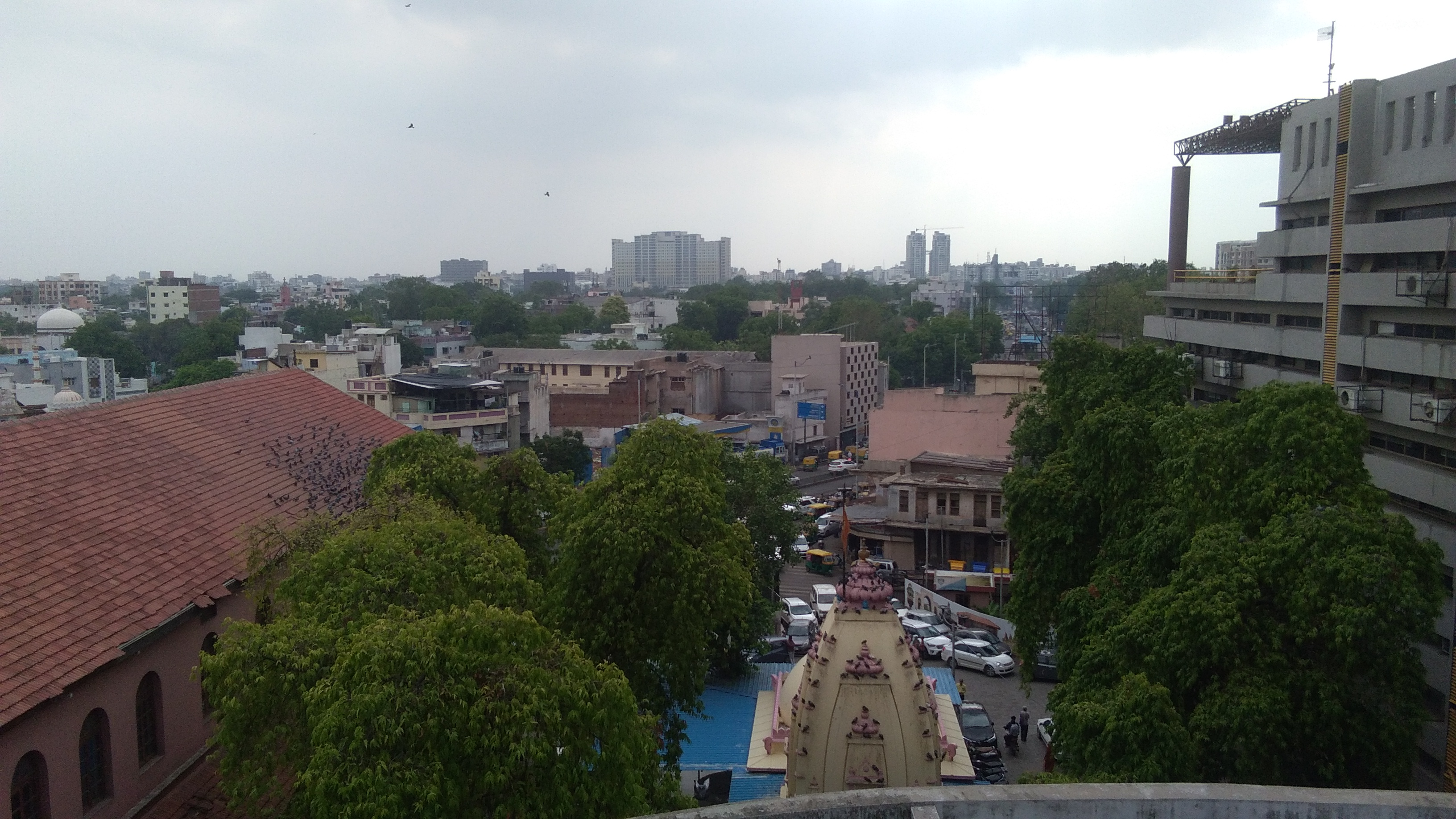 Birds eye view Ahmedabad old city